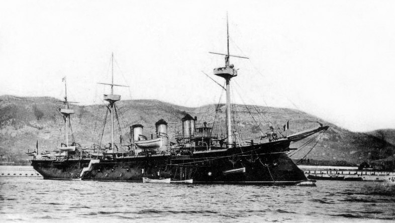 The French cruiser Amiral Cécille depicted in a contemporary postcard.